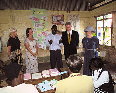 President Clinton, accompanied by the First Lady, is guided by Peace Corps Volunteers Michelle Meekins, Jane Shreyas and Kisowera teacher Edward Mugare through a resource center in Uganda.